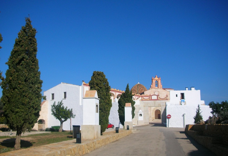 Puig de la Misericòrdia; mountain in Vinaròs district. Chapel at the summit